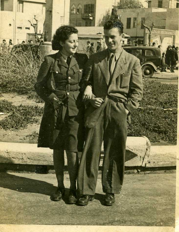 Hannah Senesh and her brother at Tel Aviv Beach